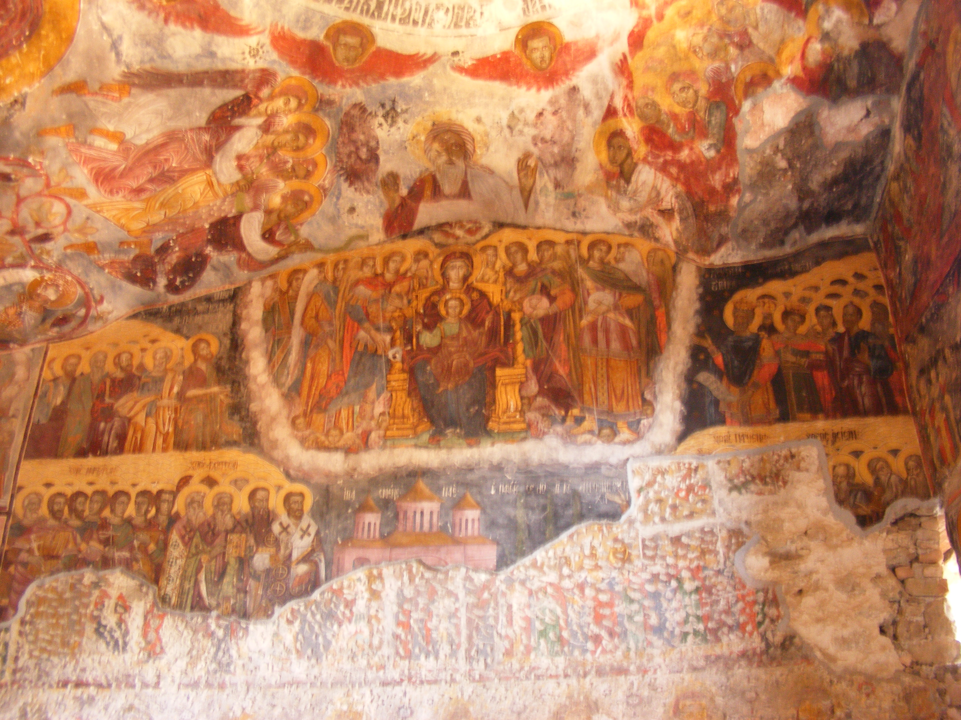 Frescoes on the inner wall of the Rock Church facing the courtyard, Sumela monastery